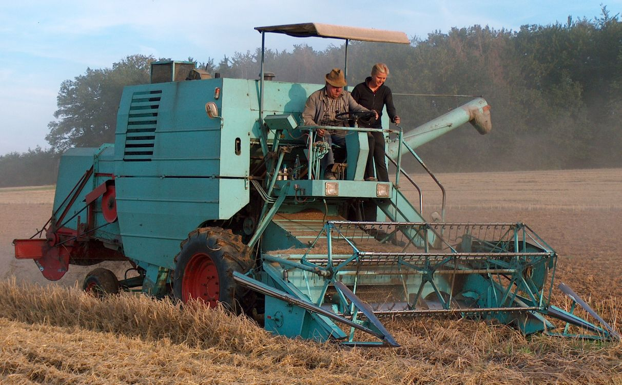 Combine by LELY, production year 1970, its later trade name was Lely-Dechentreiter